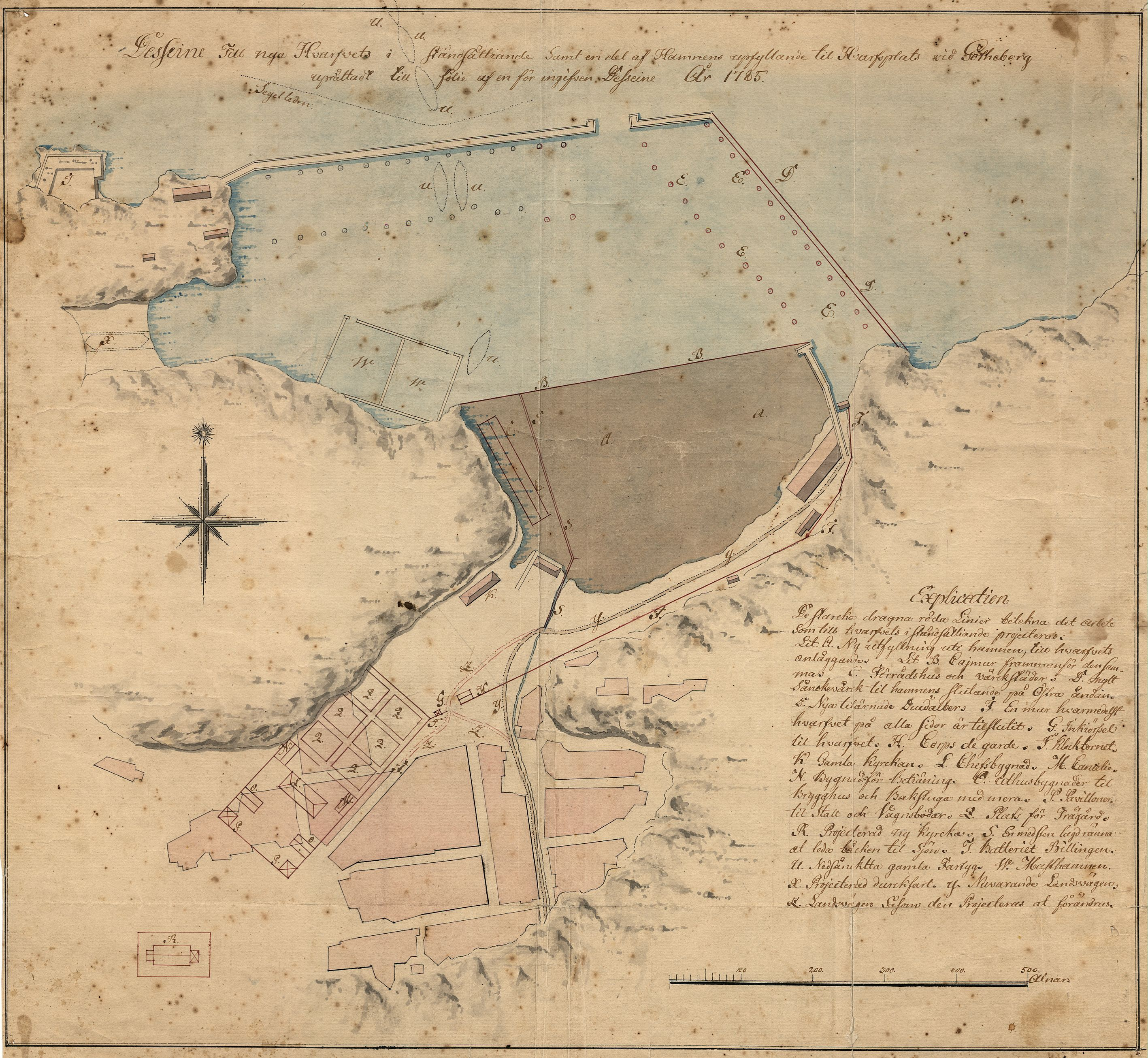 Map showing with red lines, suggested improvements of the swedish naval base Nya Varvet, Gothenburg, 1785.